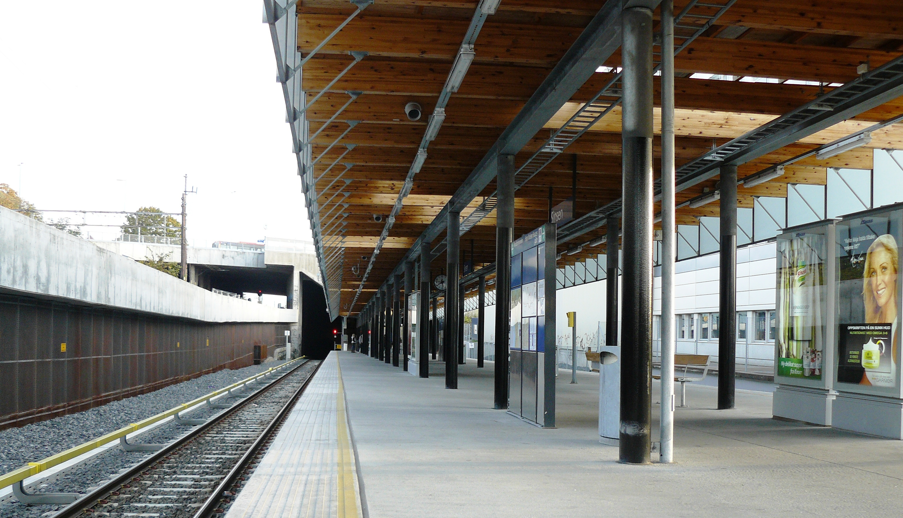 Sinsen subwaystation, Oslo